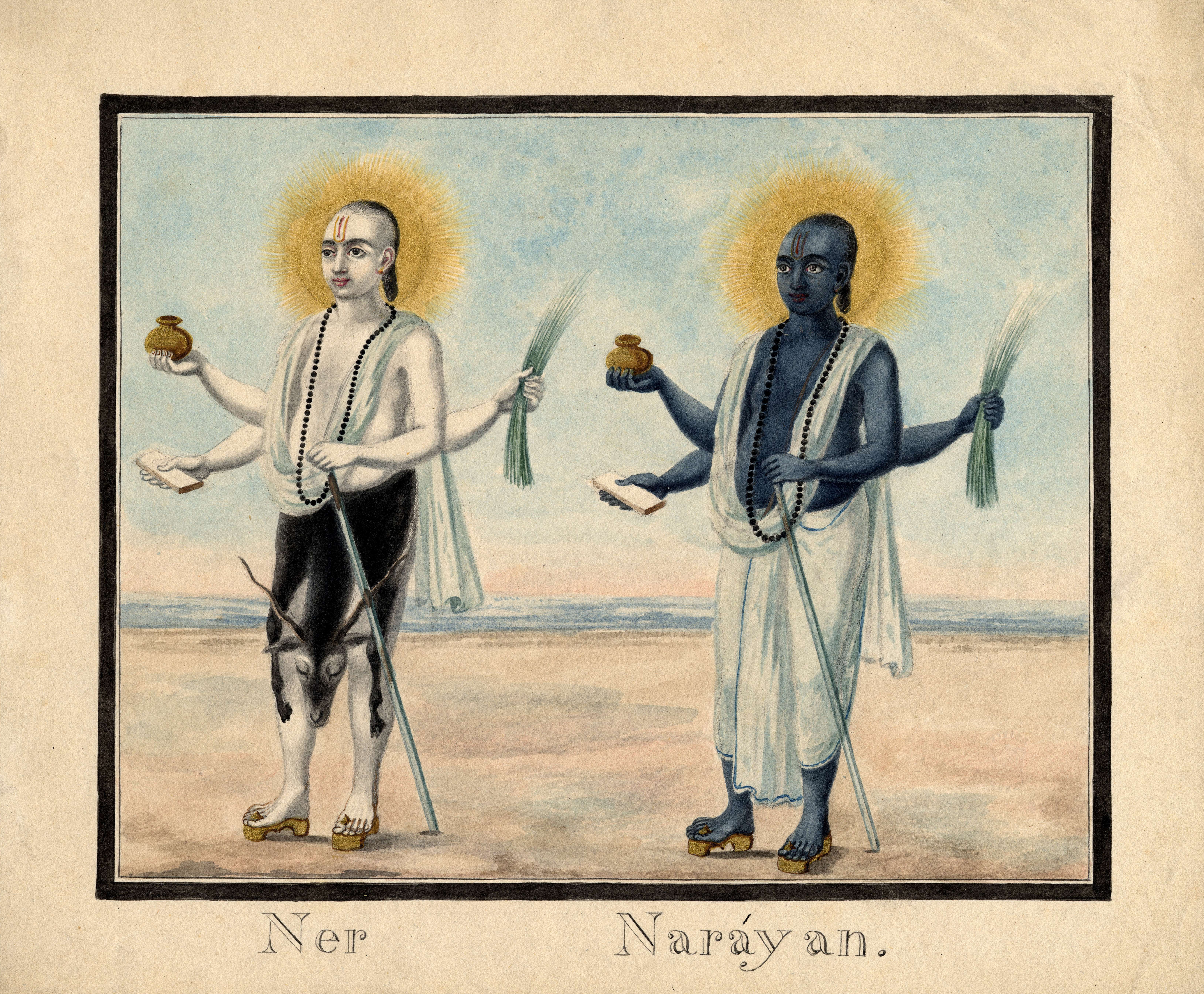 Two male figures, possibly Nara and Narayana, twin incarnations of Viṣṇu. The figure on the left is shown with pale skin and wears a deer skin around his waist. He has a white shawl draped over his shoulders. He has four arms with which he holds a golden pot, a manuscript and some plant matter and a walking stick. Around his head he has a golden nimbus and a string of black beads around his neck. The second figure on the right is identical to the first except he has blue skin and wears a white dhoti instead of an animal skin. He holds the same attributes as the first figure and adornments. Both figures wear wooden sandals on their feet. The painting is surrounded by a black border.